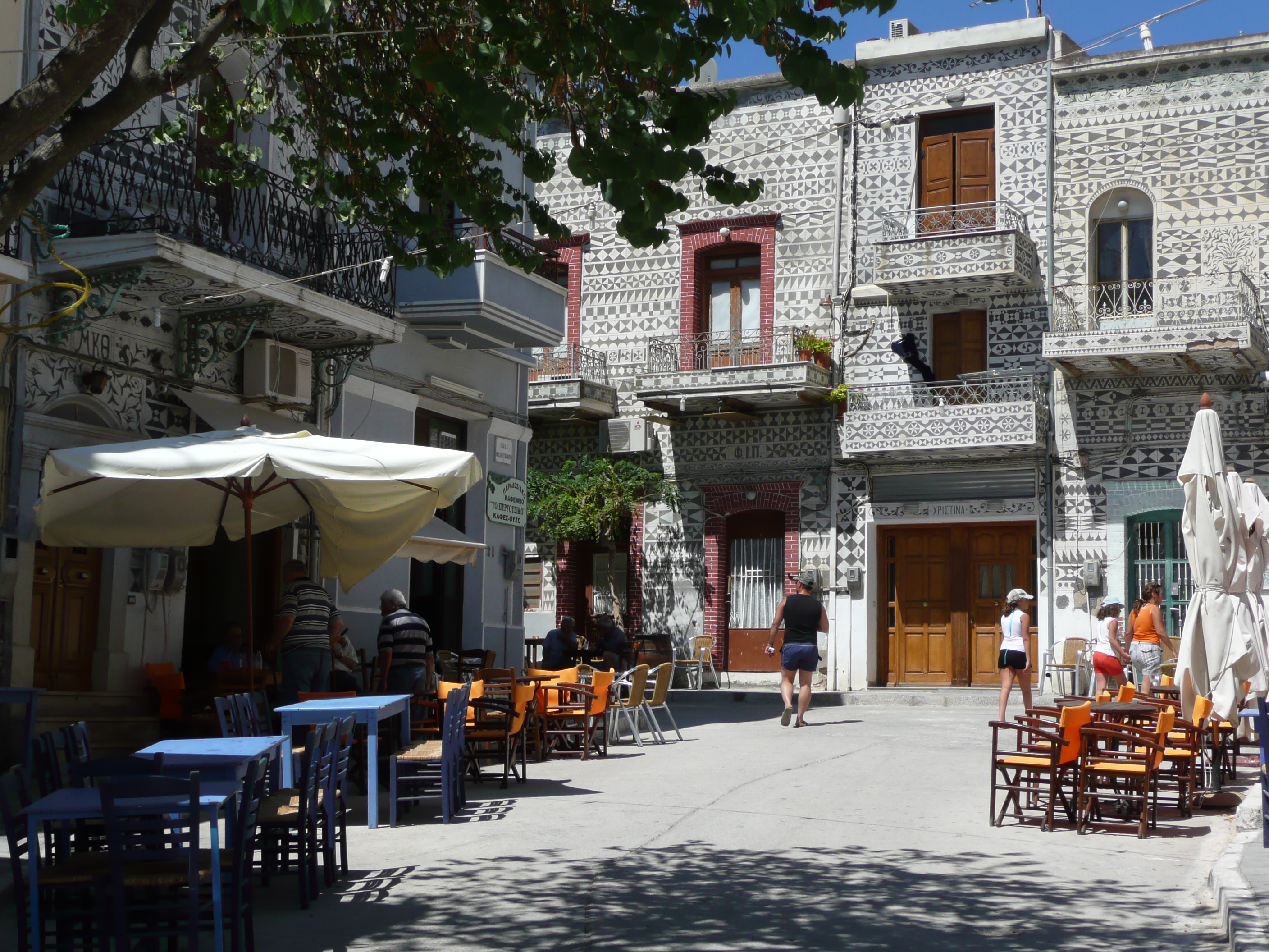 Square of Pyrgi, Cjios